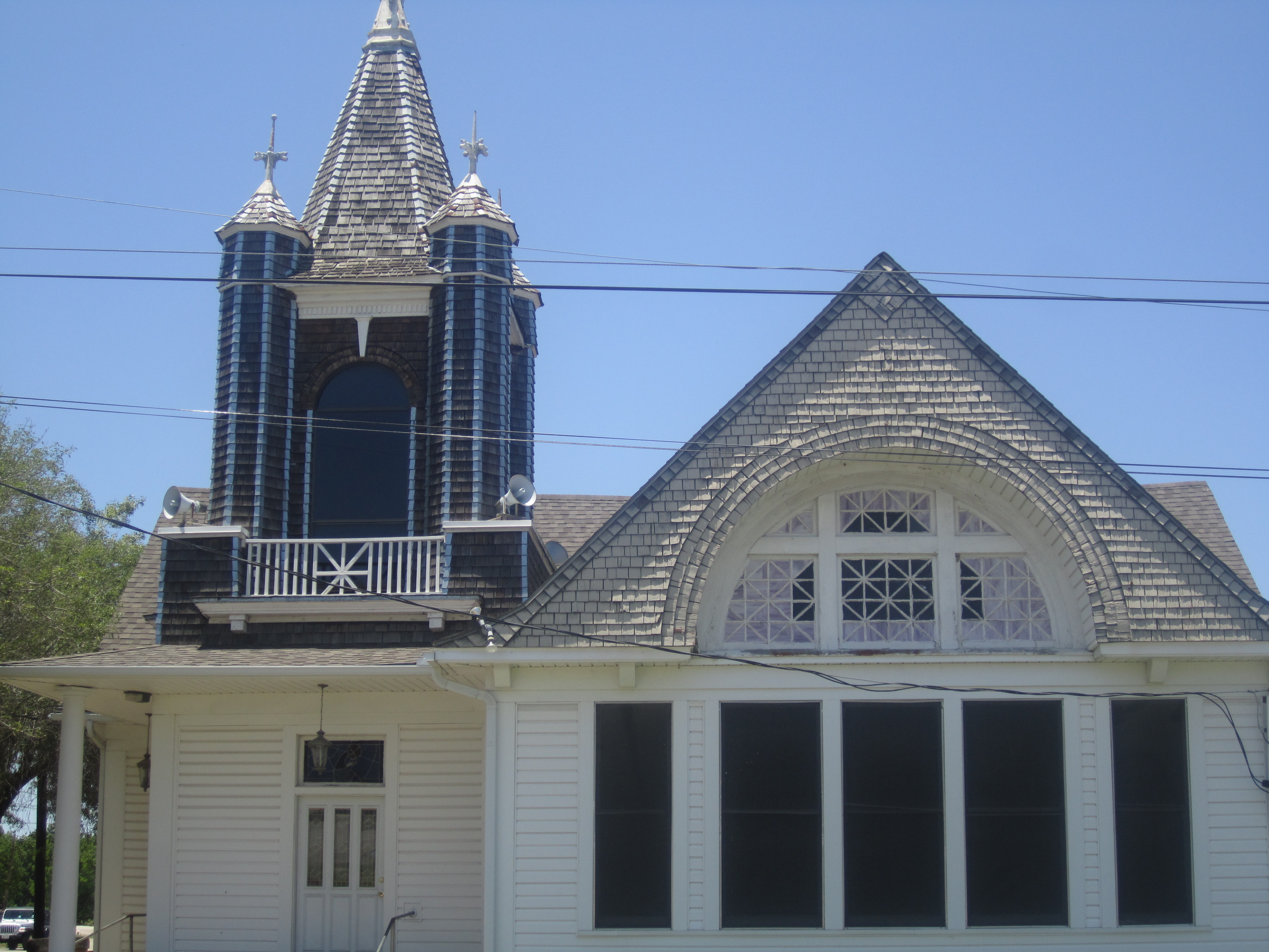 I took photo with Canon camera of FBC, Kosse.